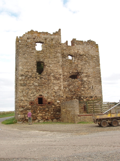 Eden Castle near Banff Eden Castle is now in ruins and used as farm buildings. The Chatelaine's Scottish Castles tells us: "It was originally a Z-plan tower house, built in 1577 by the Meldrum family and then later extended by the Leslies in the 1600s. In 1712 the castle was sold to William Duff (Earl of Fife) and today it lies in ruins. In its day, the castle would have had a cellar and kitchen, above which was the hall and then 2 storeys of bedrooms on upper floors." There is more information on the web site of Royal Commission on the Ancient and Historical Monuments of Scotland.